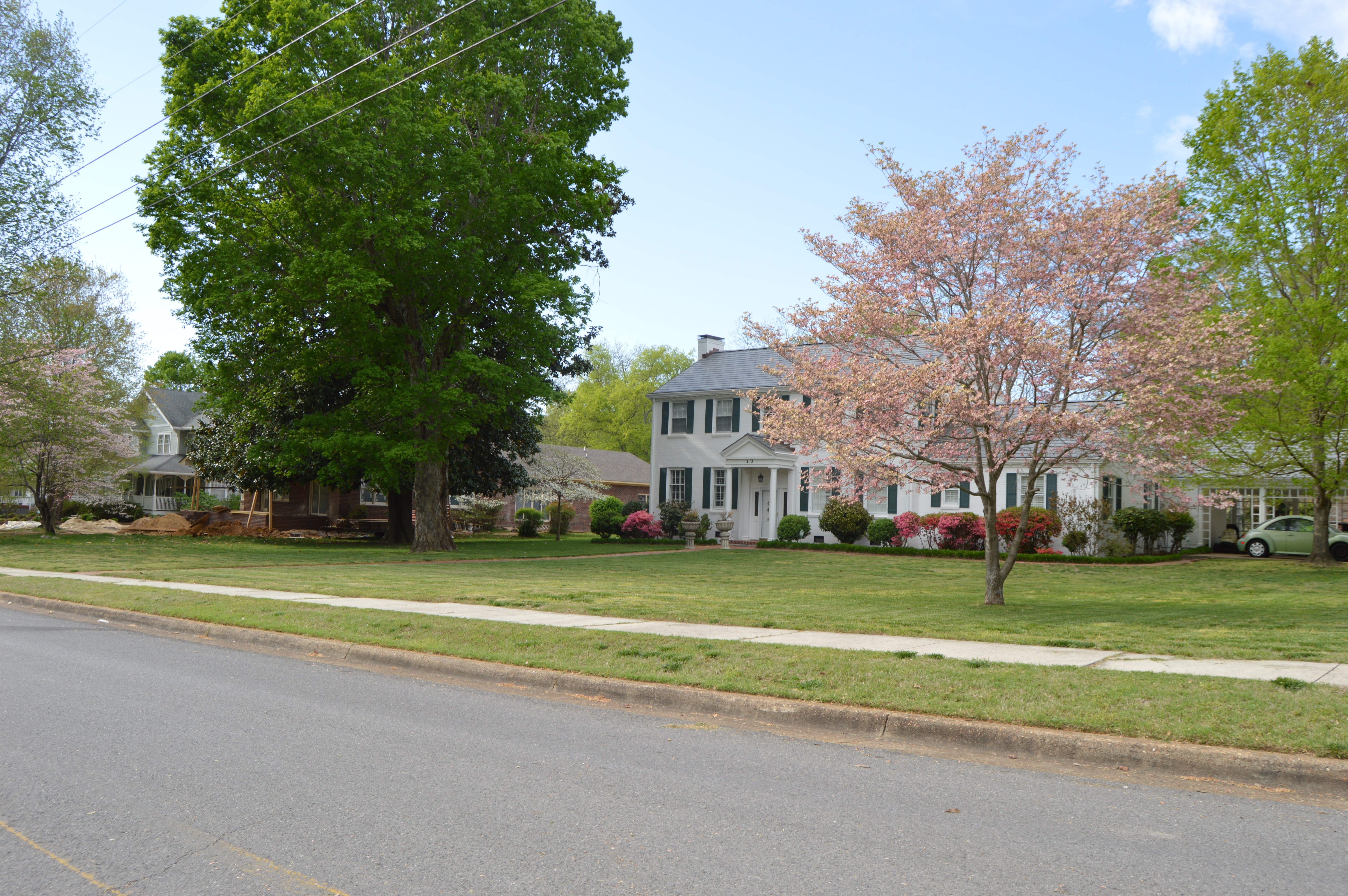 Houses on the northern side of College Street, seen from that street's intersection with Kyle Street in Scottsboro, Alabama, United States. This block composes the College Hill Historic District, a historic district that is listed on the National Register of Historic Places.